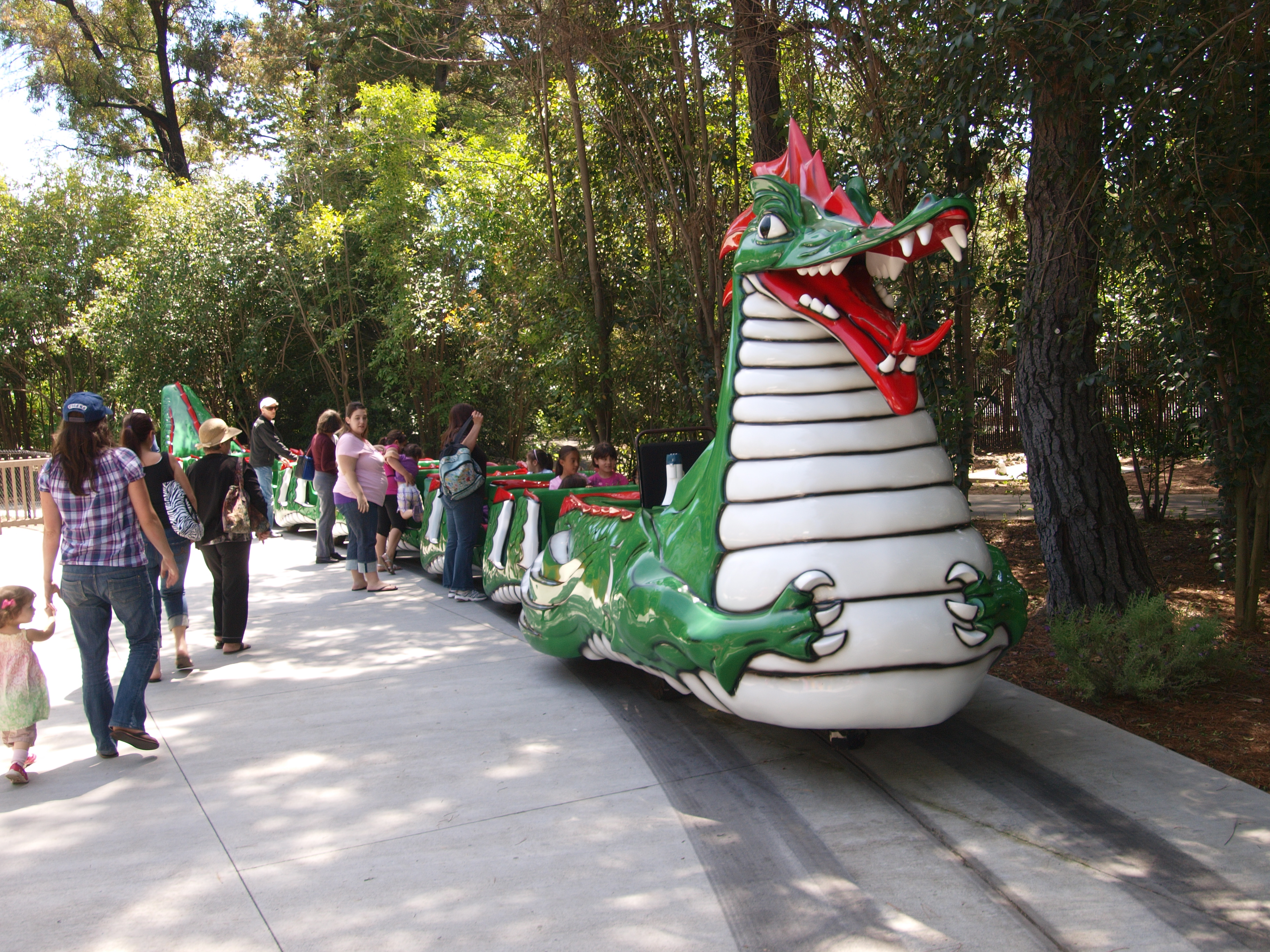 Danny sure seems friendly, letting people ride on his back.